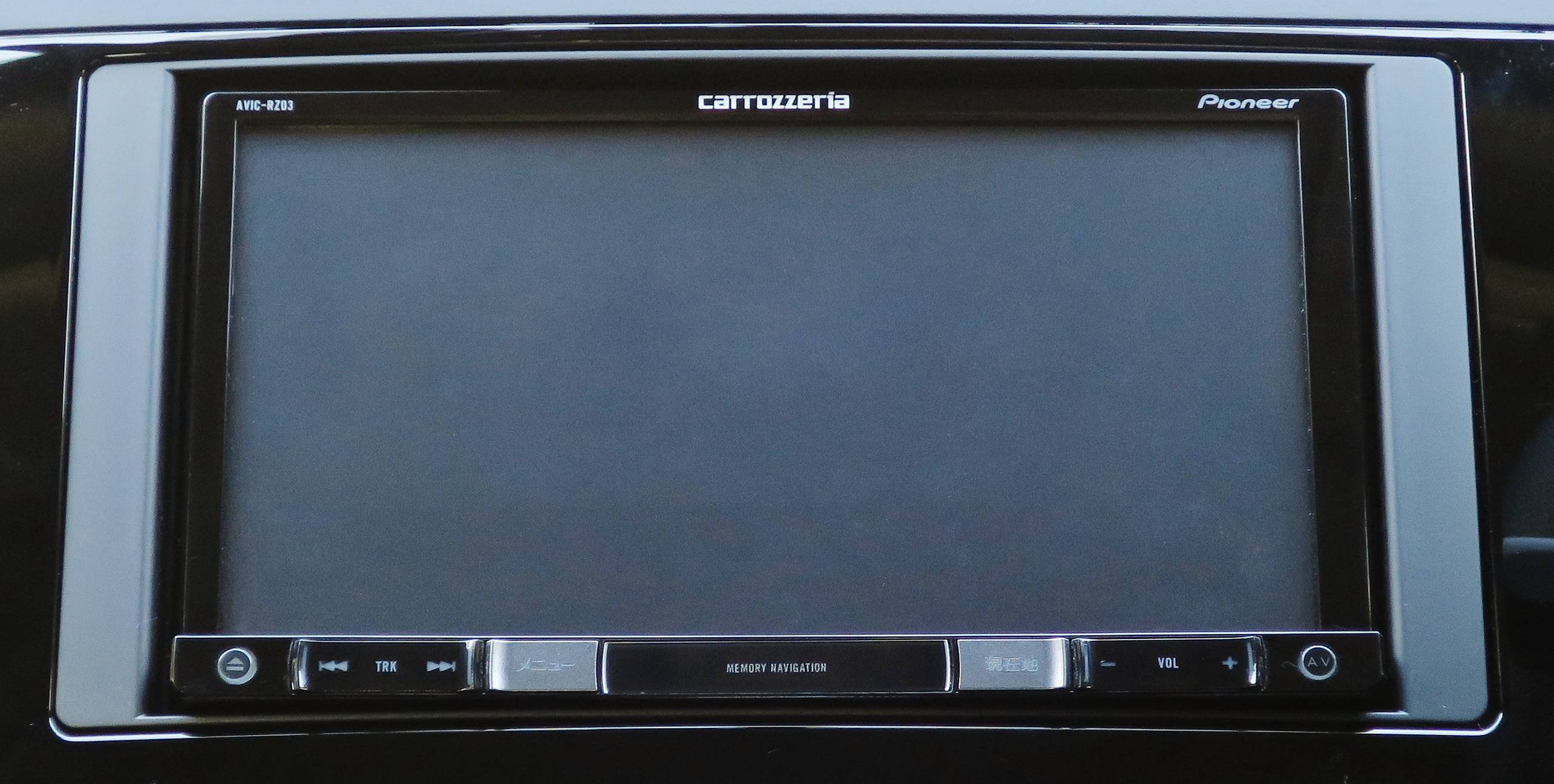 Pioneer (Carrozzeria) automotive navigation system 'Raku Navi' AVIC-RZ03.